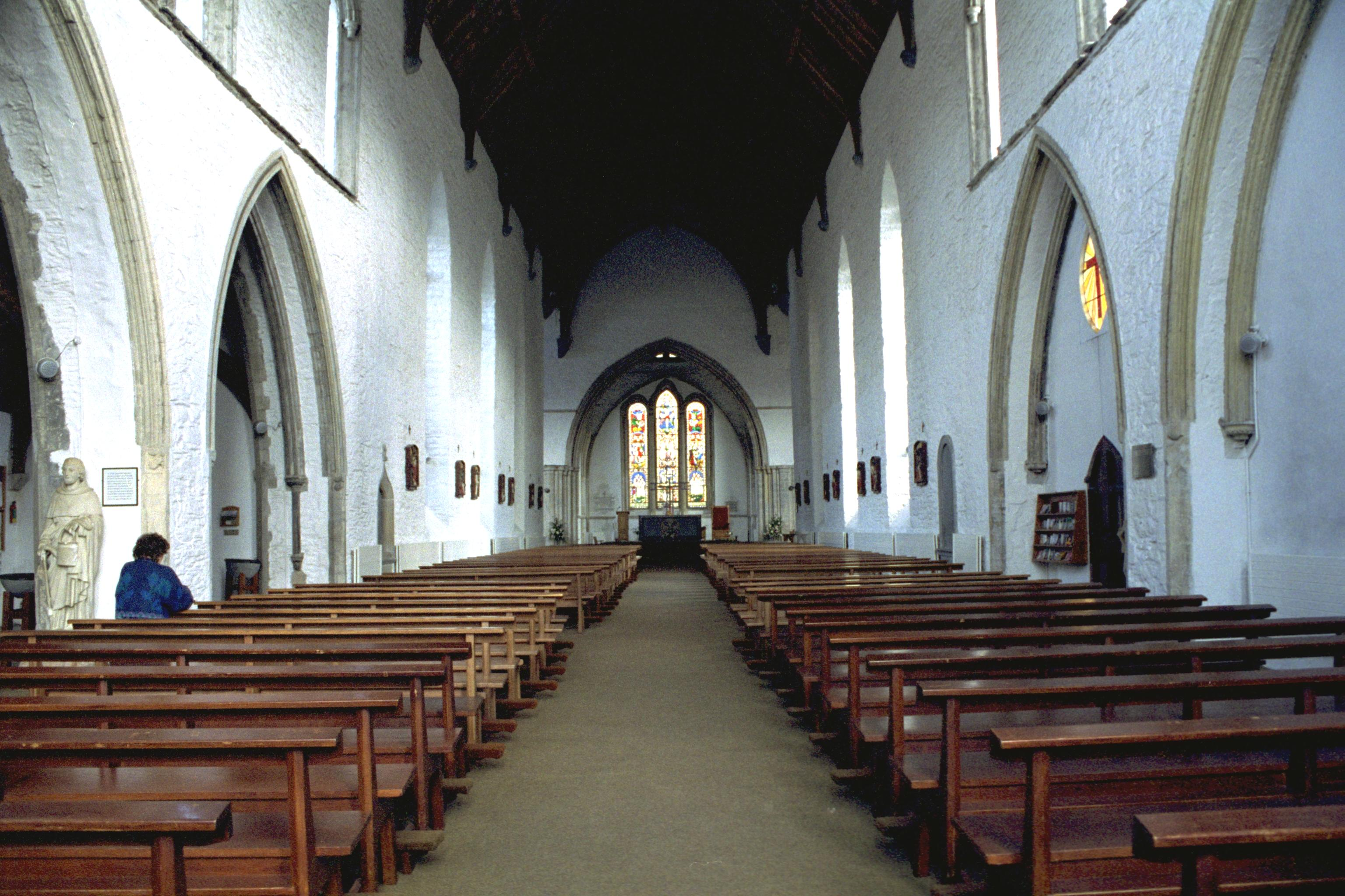 Graiguenamanagh, County Kilkenny, Ireland View of the Nave, looking East